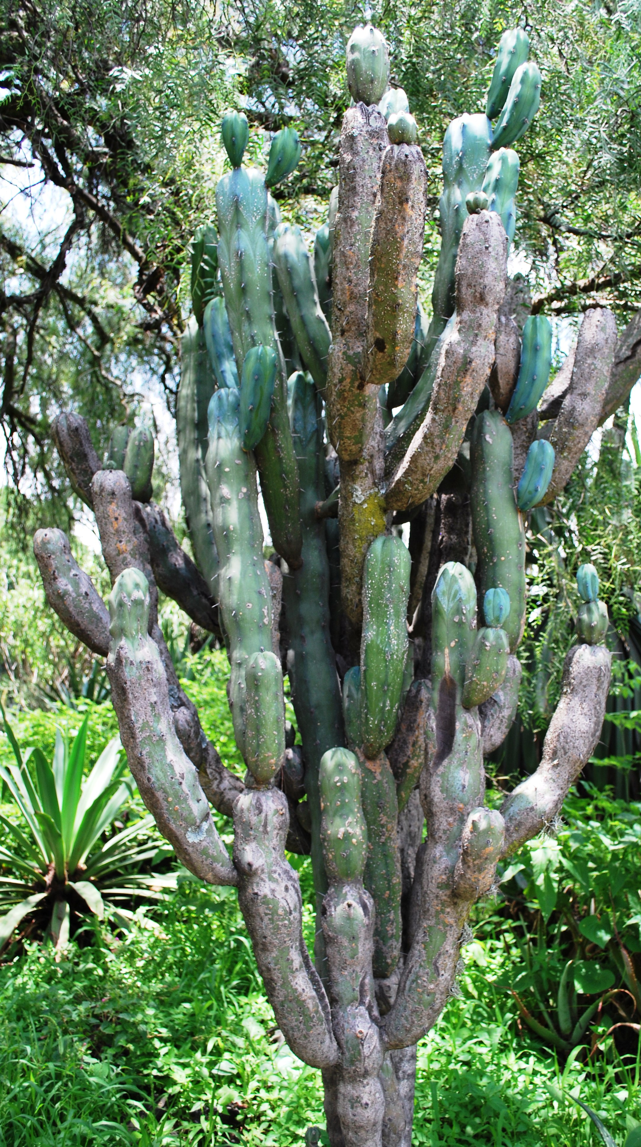 Myrtillocactus geometrizans cactus in the Crasulacea section of the Botanical Garden of UNAM in Mexico City